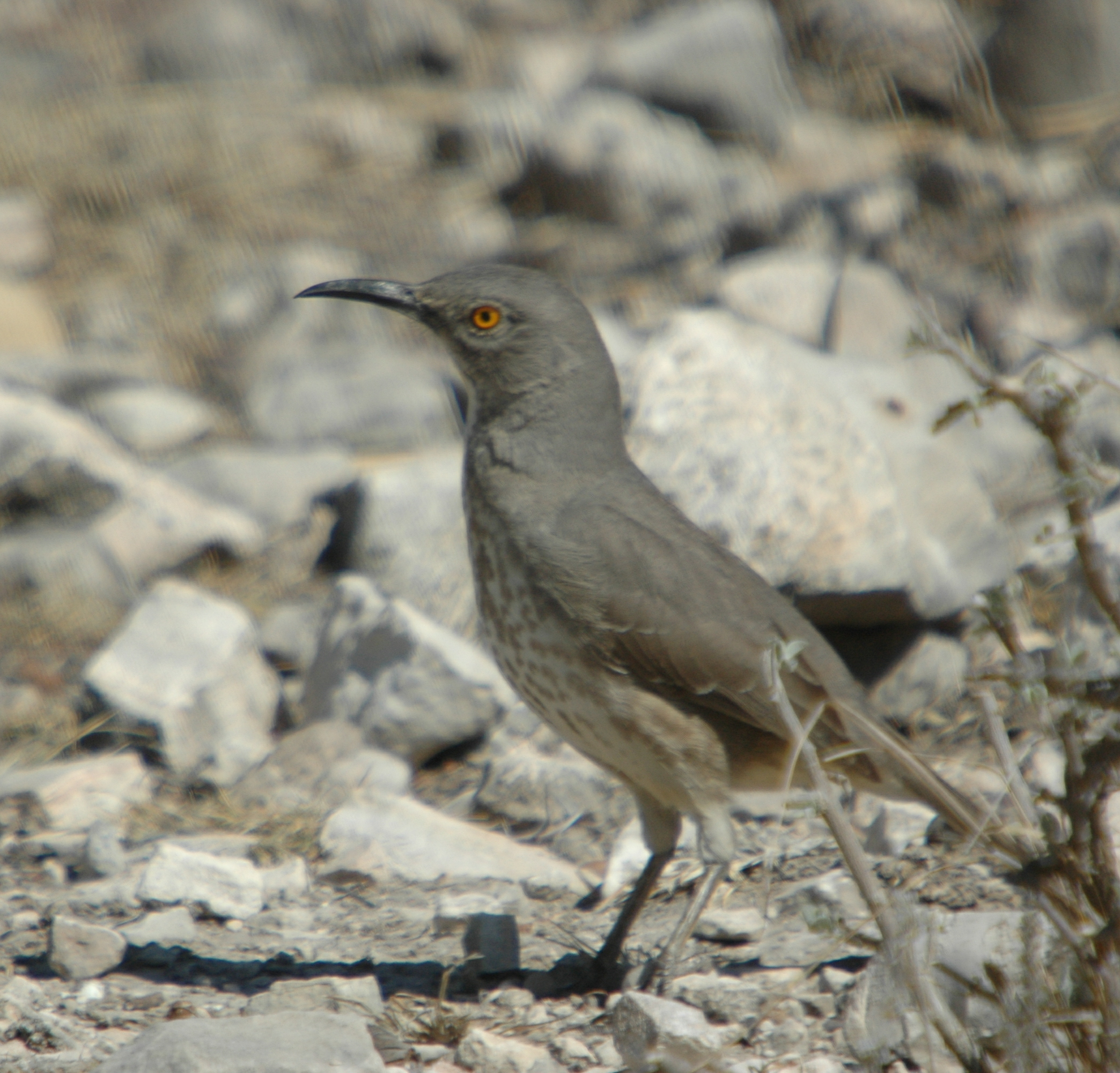 Curve-billed Thrasher (Toxostoma curvirostre, palmeri group), Del Rio, TX, Val Verde County, Amistad National Recreational Area